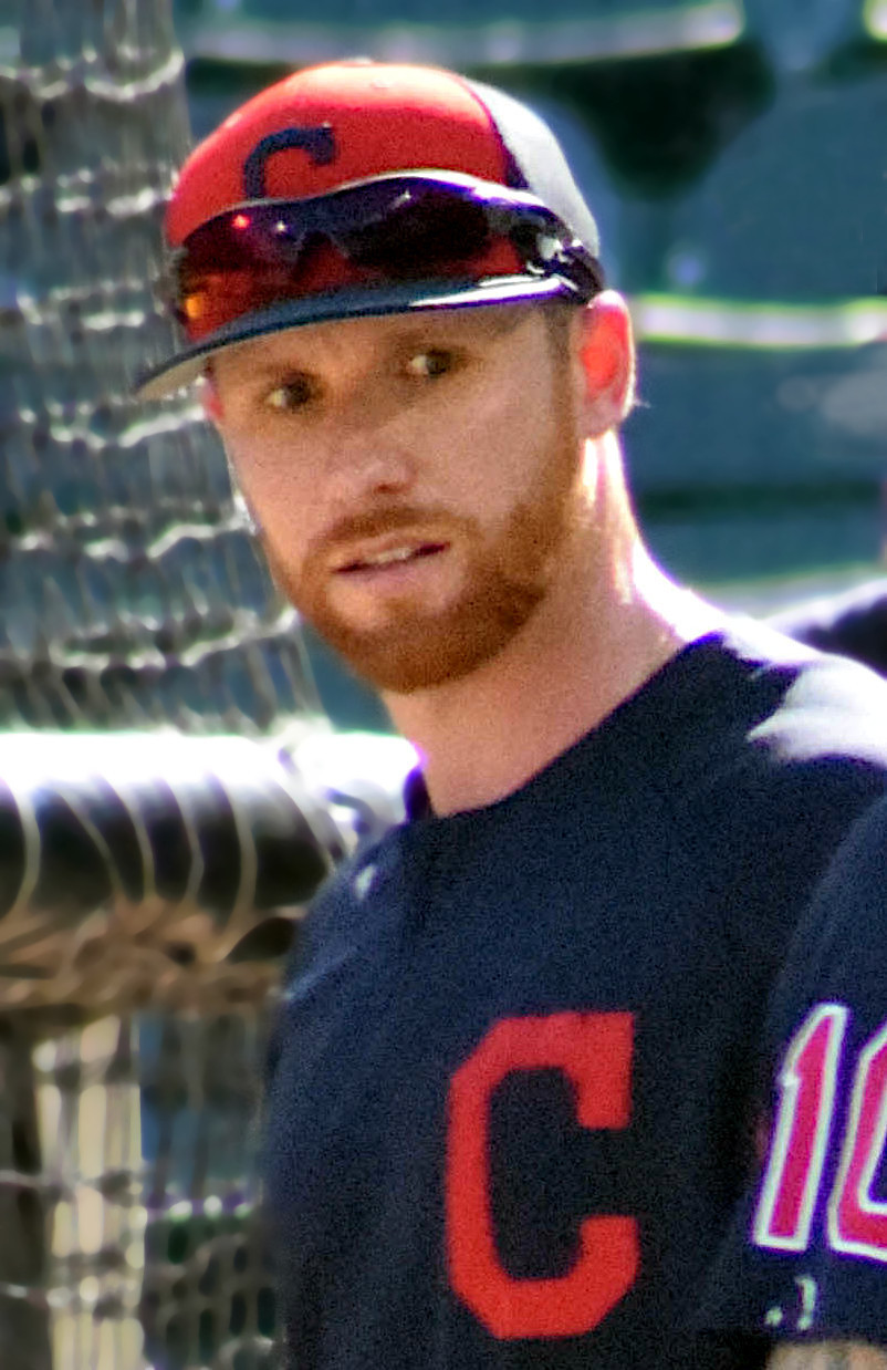 Jordan Luplow and Jake Bauers with the Cleveland Indians at Globe Life Park in Arlington in 2019